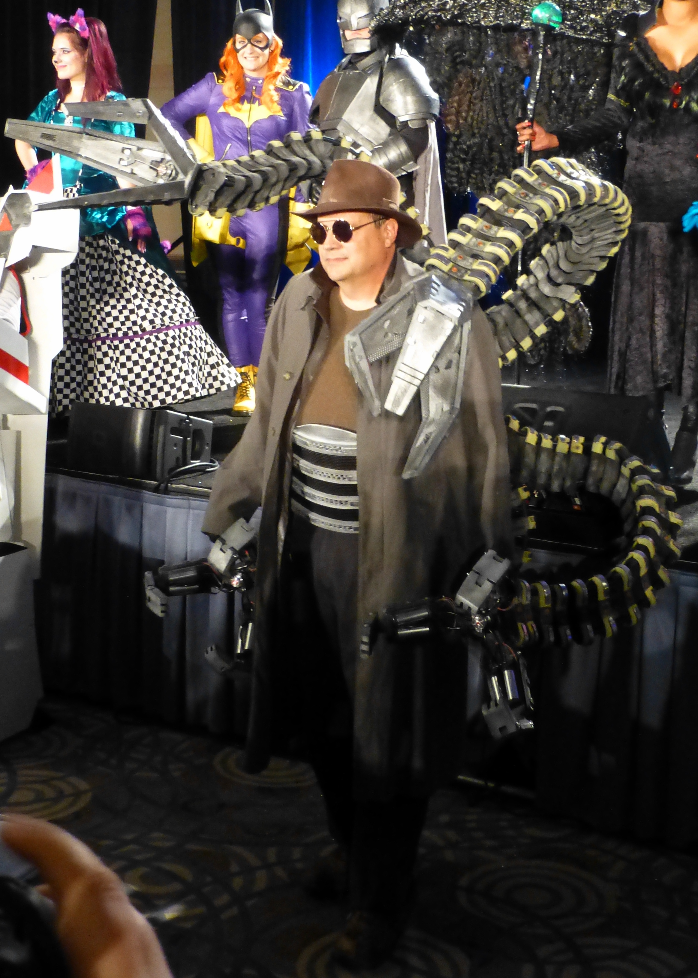 Doctor Octopus won Best Male Villain Costume contest at the 2015 Wizard World Chicago.